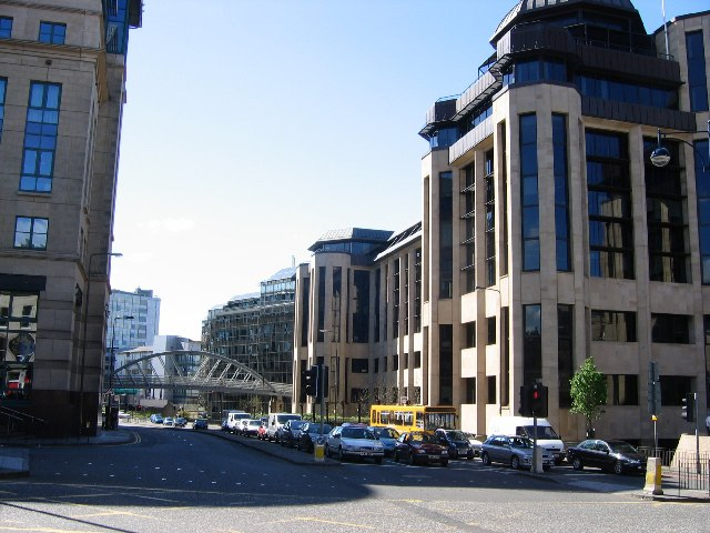 Financial District. The site of Princes Street railway station is now the financial centre of Edinburgh. The chrome and glass on display here includes the Clydesdale Bank and Standard Life Head Office. The main road in from the West runs through the picture.